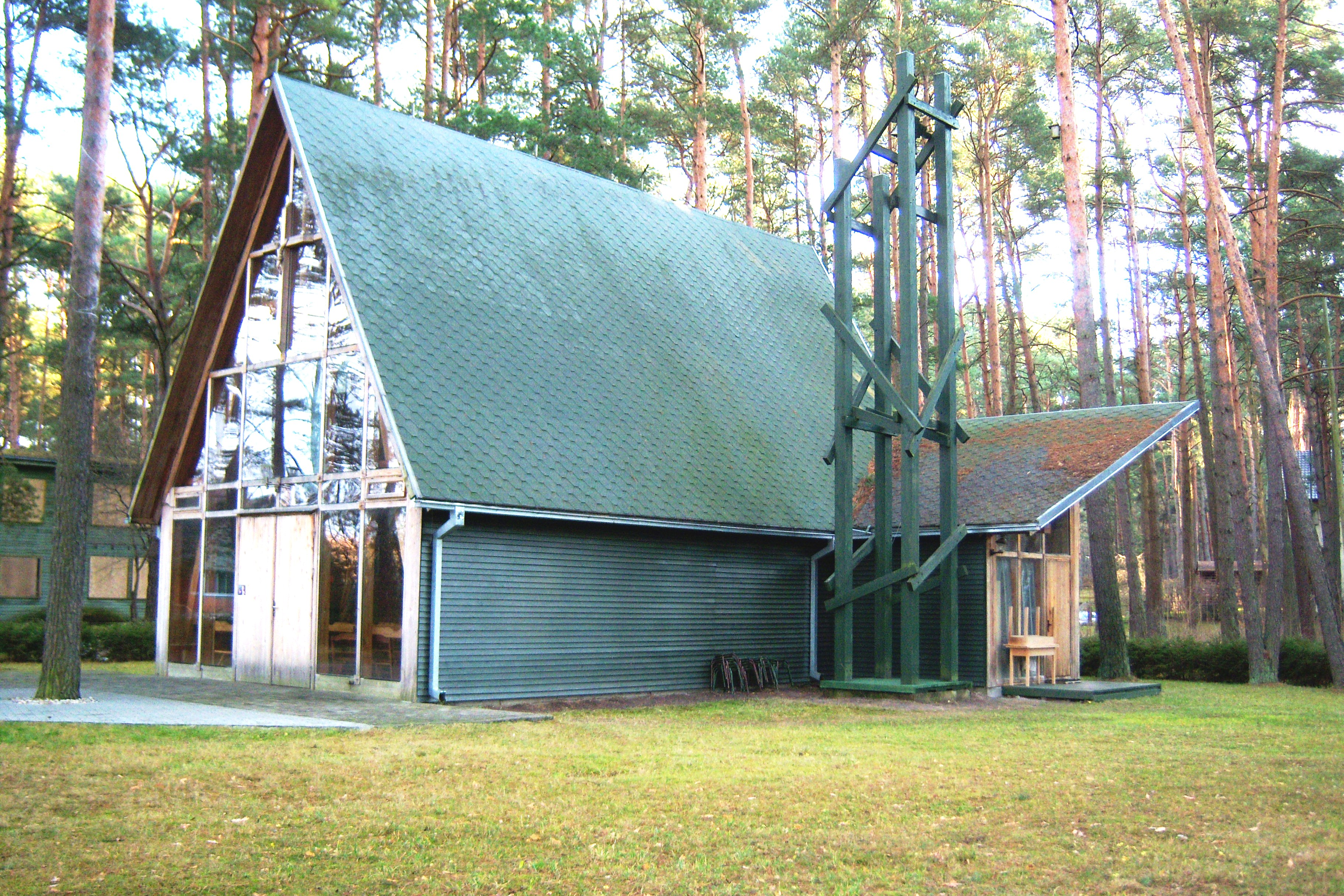 Kačerginė, chapel, Kaunas District. Lithuania